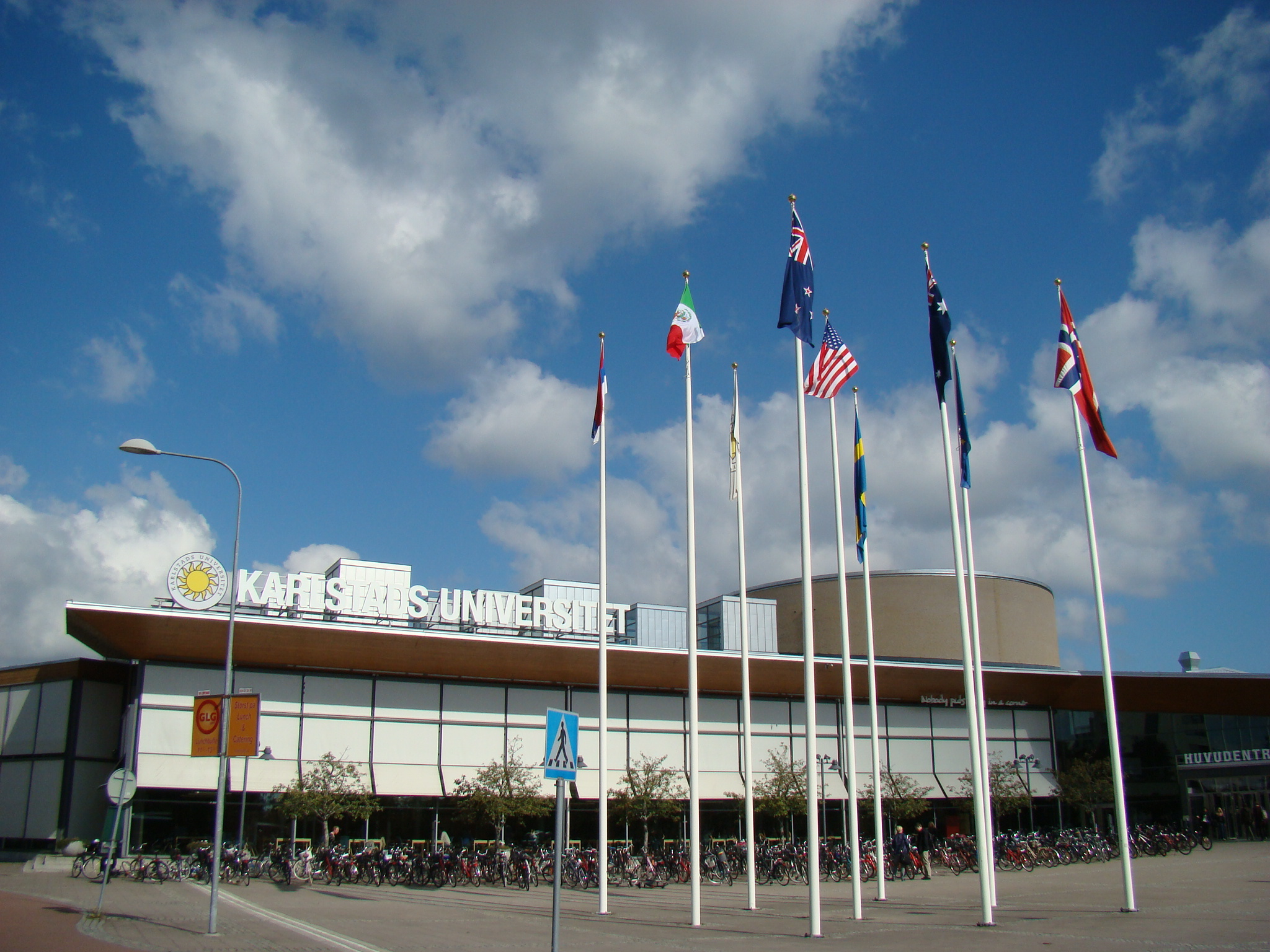 Main Access to Karlstad University